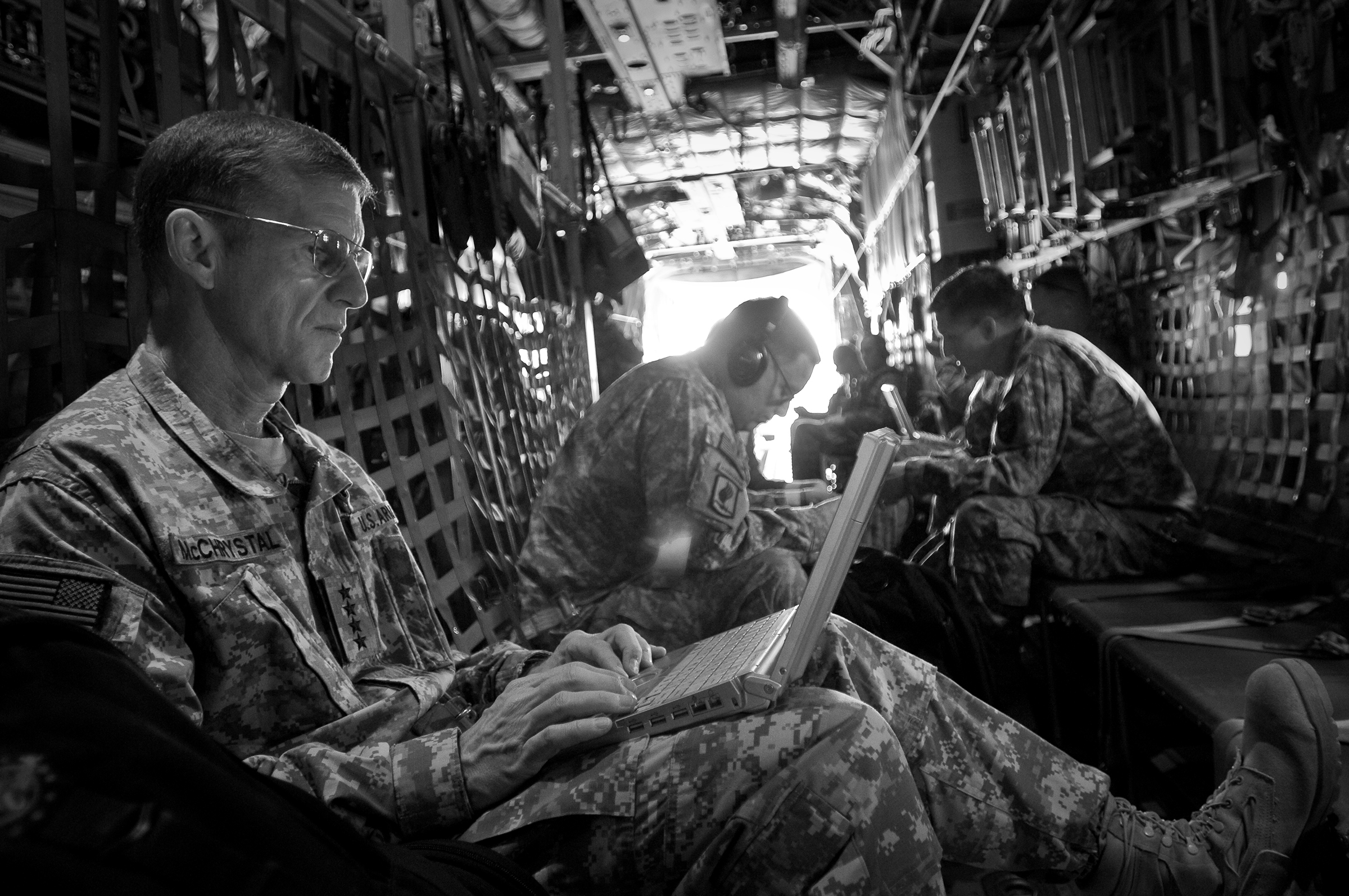 MAZAR-E-SHARIF, Afghanistan (March 15, 2010) U.S. Army Gen. Stanley A. McChrystal, commander of the NATO International Security Assistance Force and U.S. Forces-Afghanistan, works on a Lockheed C-130 Hercules aircraft between Battlefield Circulation missions. (U.S. Navy photo by Mass Communication Specialist 1st Class Mark O'Donald/Released)